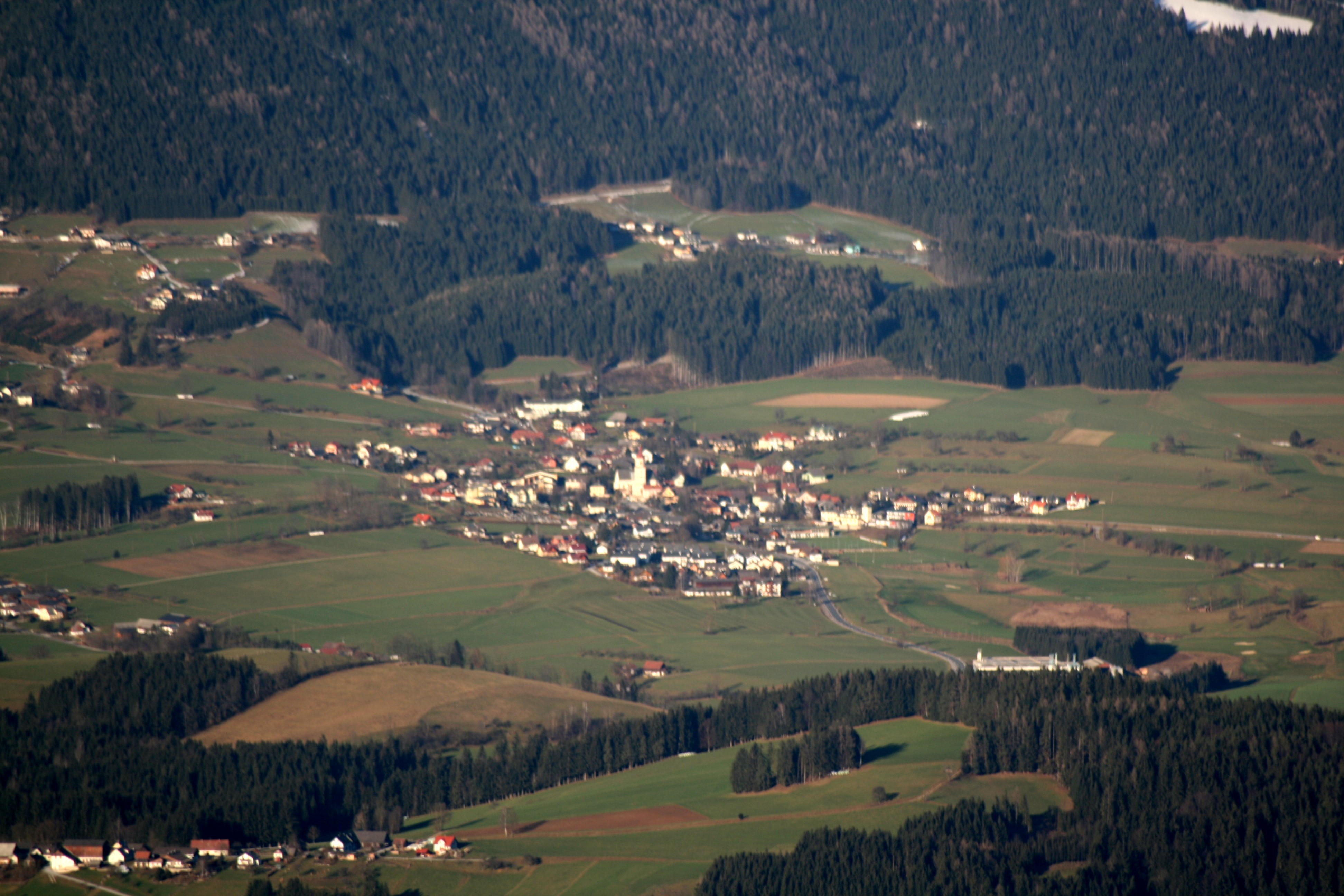 Fladnitz an der Teichalm, seen from "Schöckl" mountain. Styria, Austria, Europe